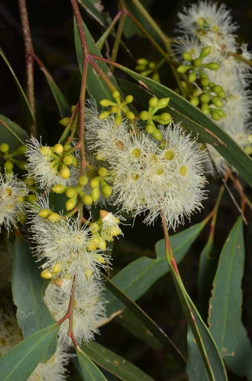 Flower buds and flowers of Eucalyptus pilligaensis about 16km south of Moonie, Queensland